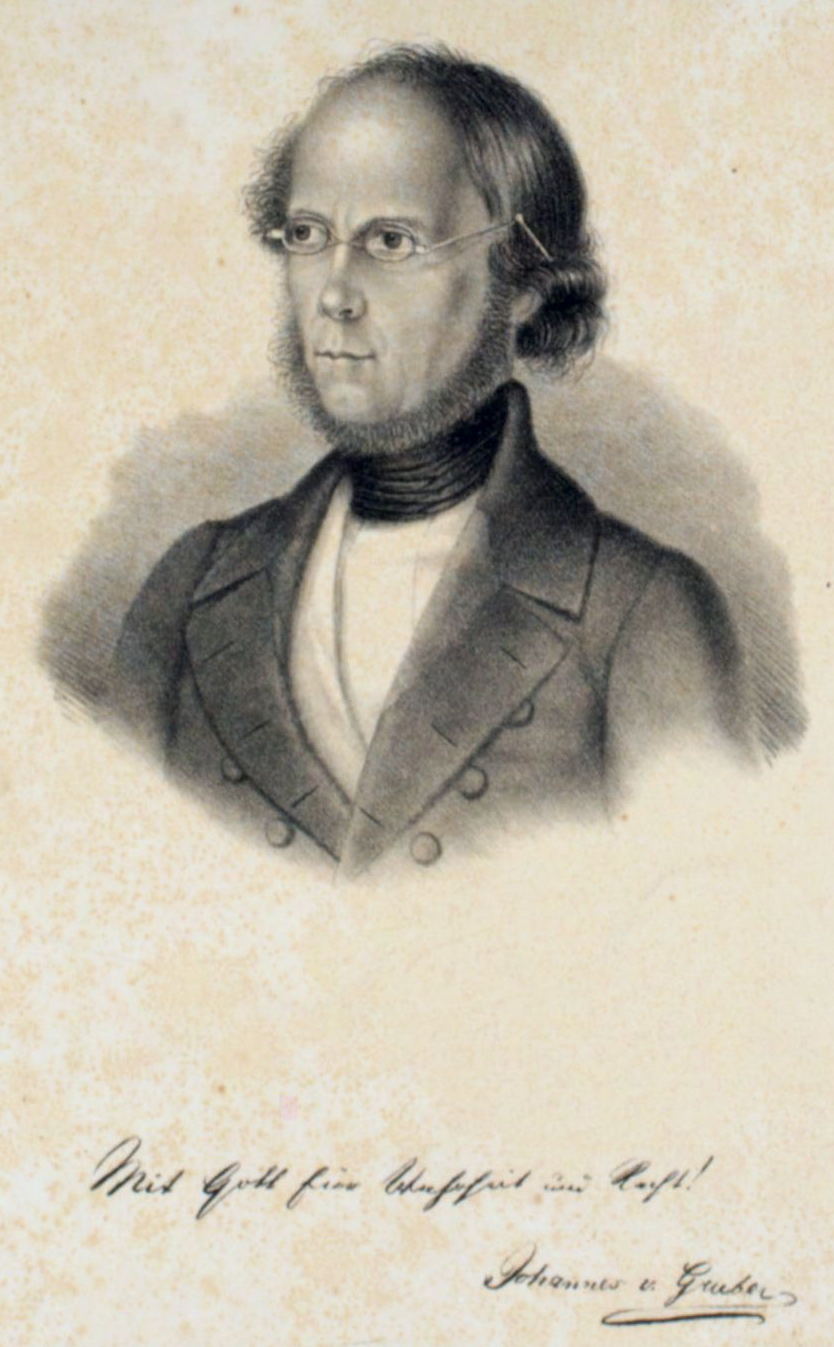 "With God for truth and justice"